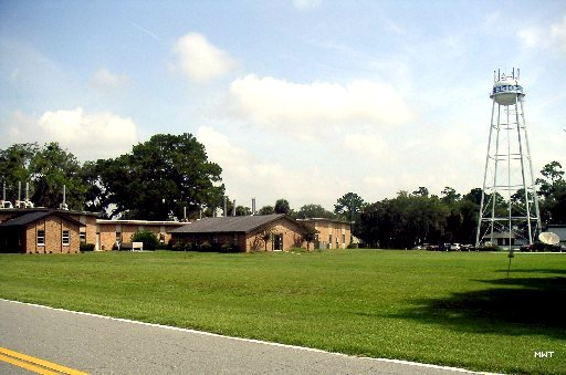 The east side of the Skidaway Institute of Oceanography Dorothy Roebling Building.